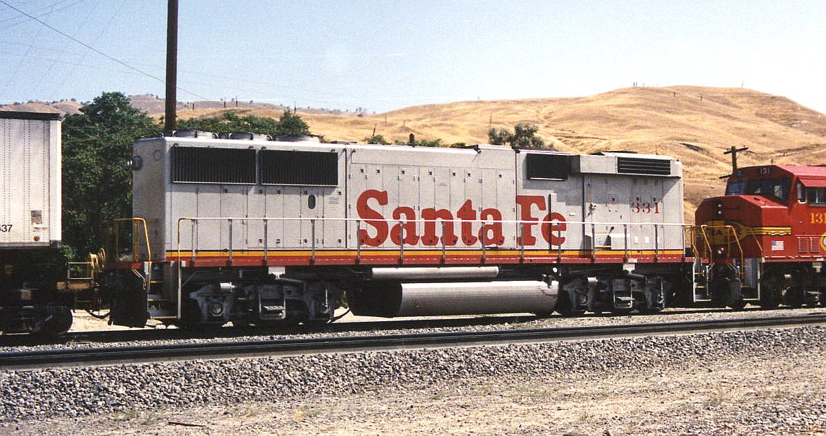 ATSF 331, an EMD GP60B, in an eastbound train at Caliente, making its way toward the Tehachapi Loop, in the late 1980s. Photo by Sean Lamb (User:Slambo)